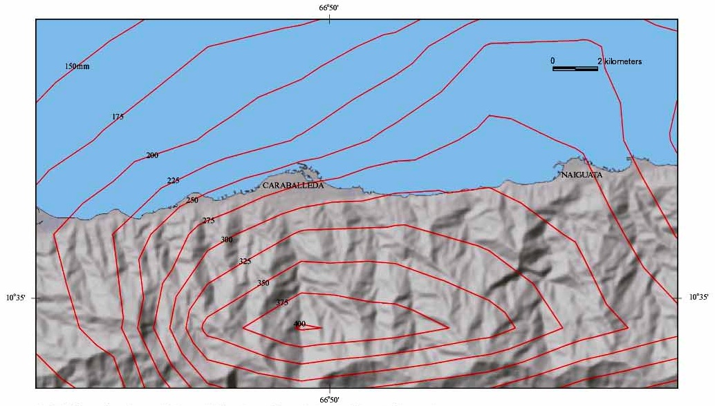 Isohyets (lines of equal amount of rainfall) from the December 14–16 1999 storms, draped over a shaded relief map of coastal North-central Venezuela